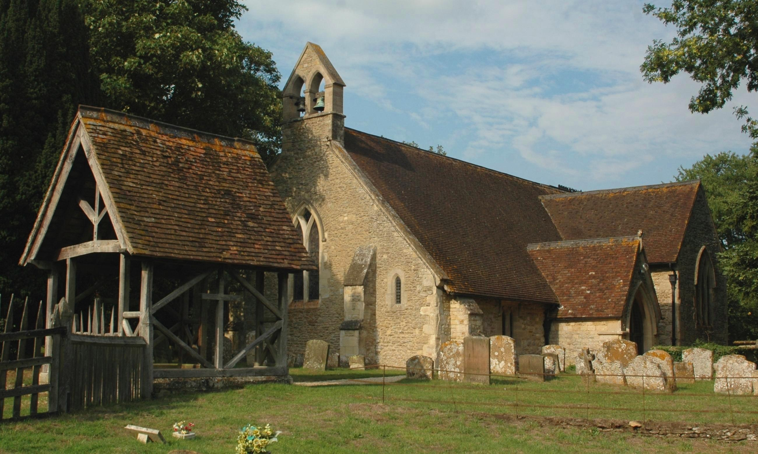 Church of England parish church of St Lawrence, Toot Baldon, Oxfordshire, seen from the southwest, with its lychgate